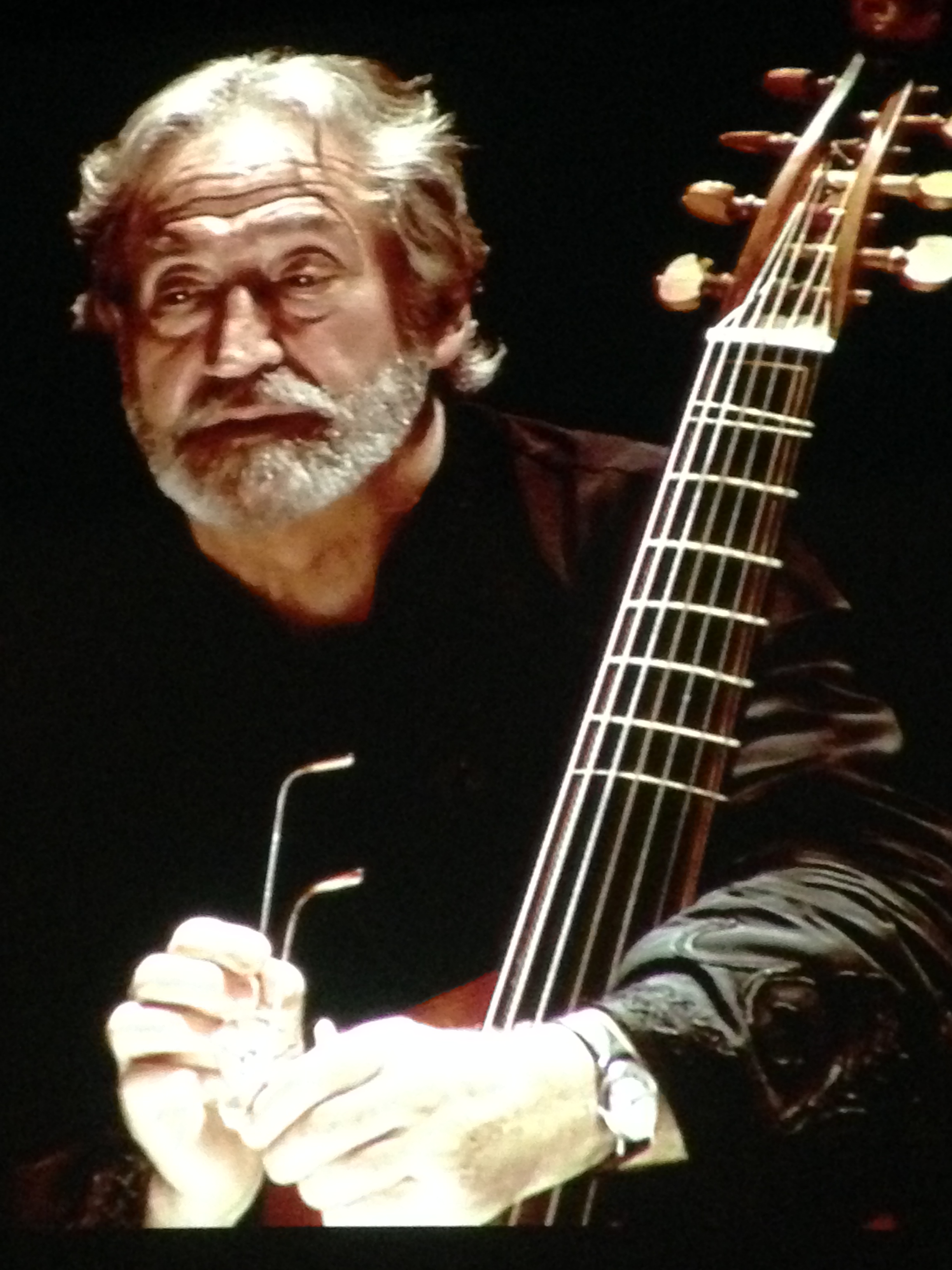 Jordi Savall with his viol